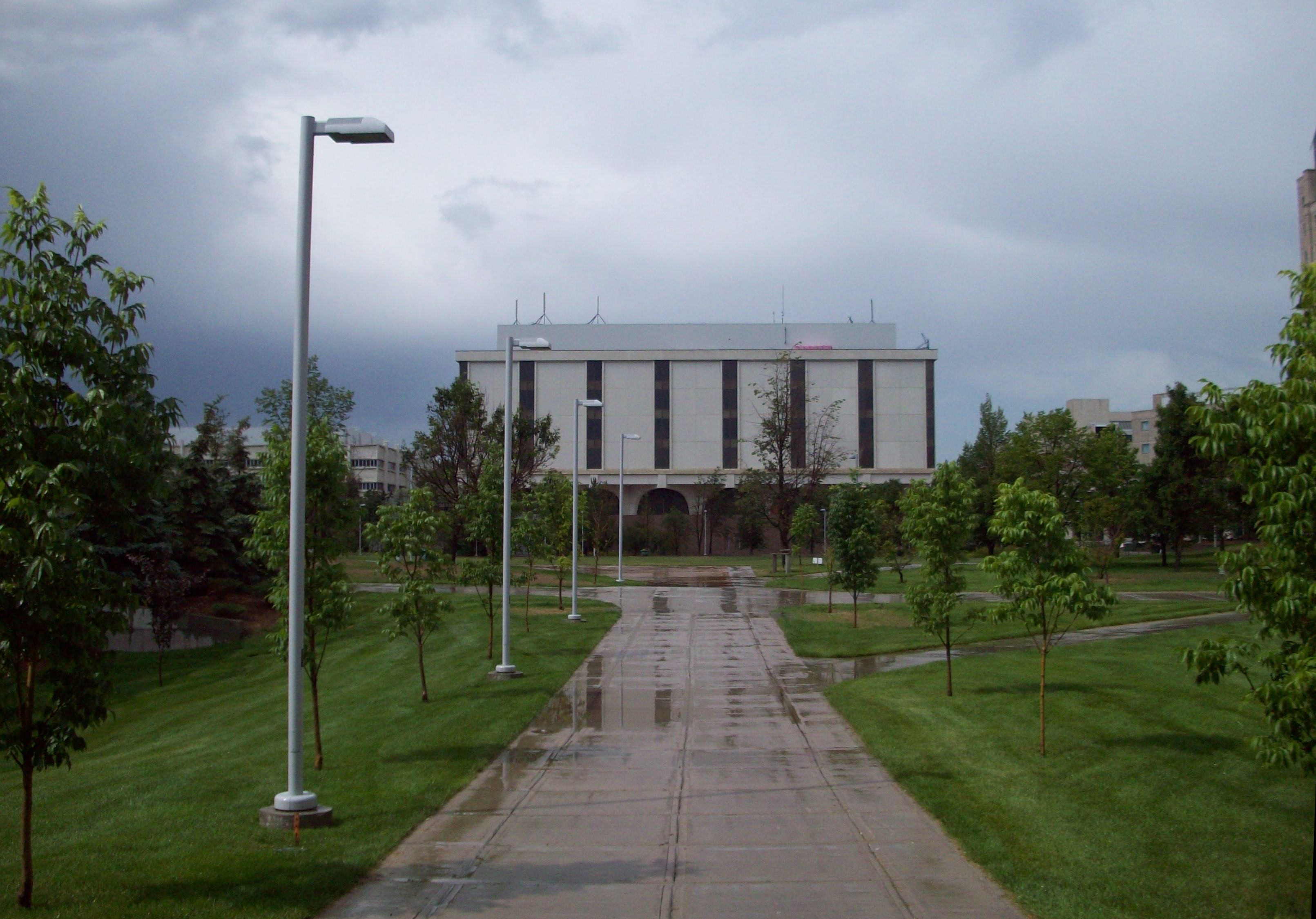 University of Regina Library viewed from the Oval